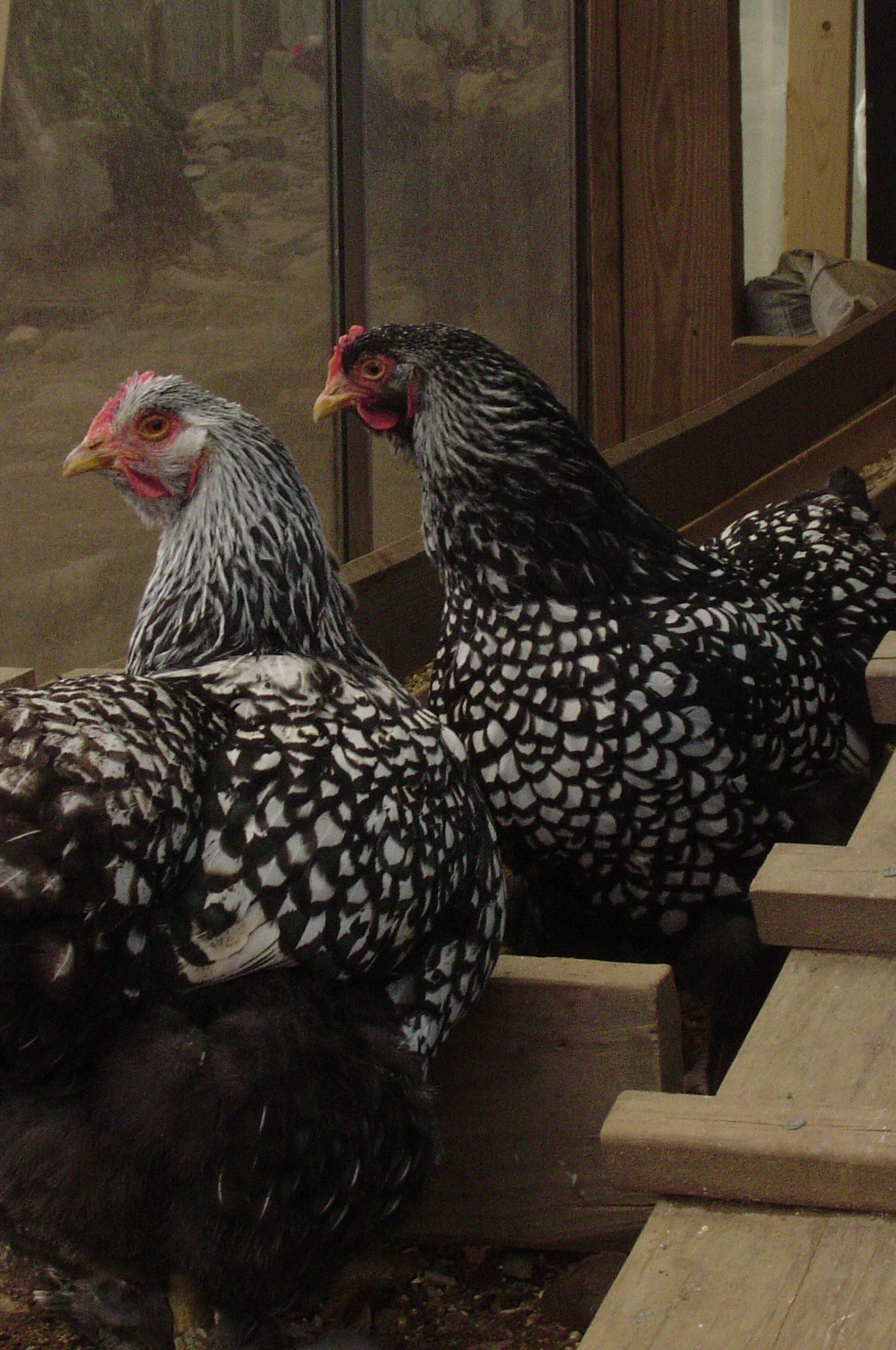 Three Silver Laced Wyandotte hens